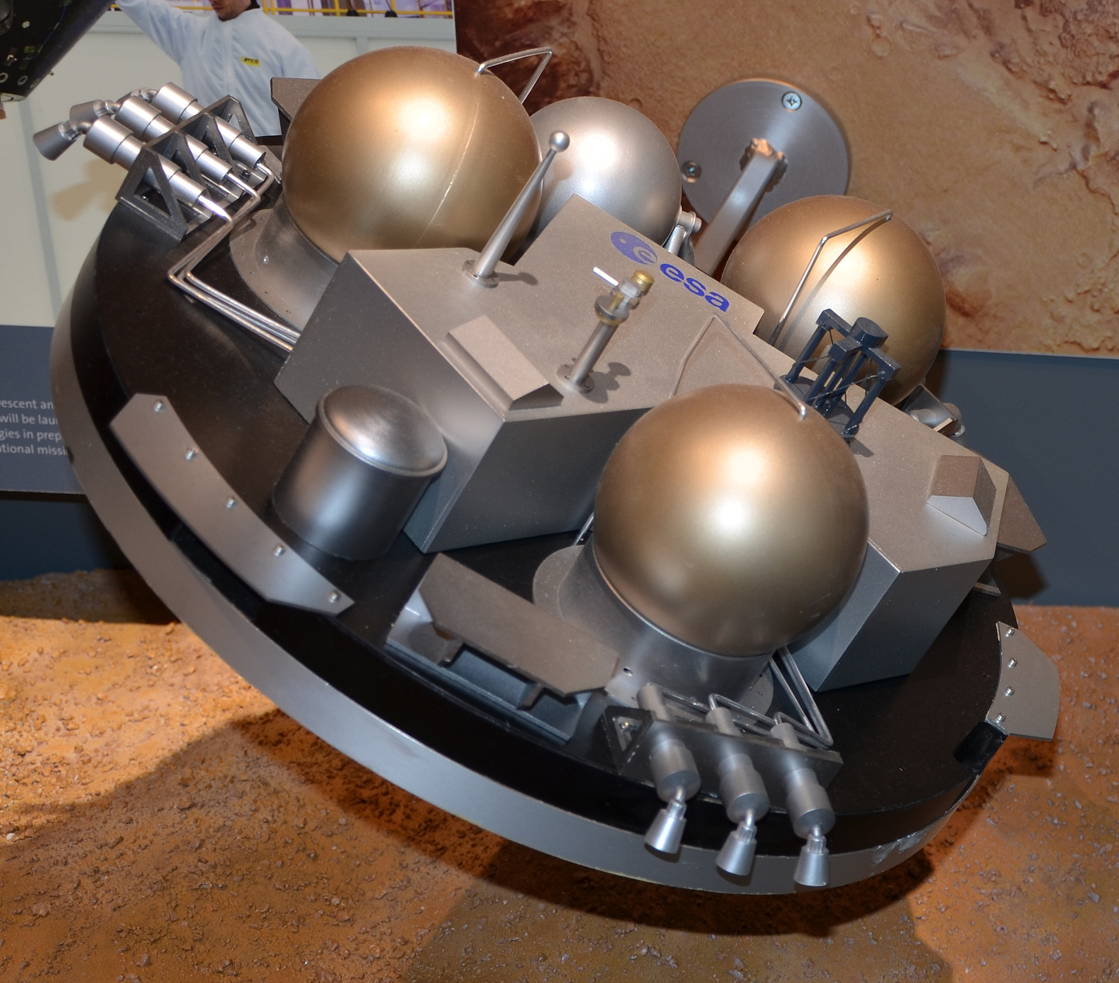 Schiaparelli EDM lander concept Paris Air Show 2013